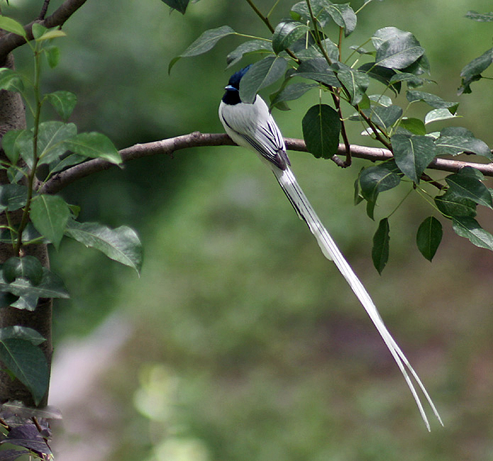 Asian Paradise Flycatcher Terpsiphone paradisi in Kullu District of Himachal Pradesh, India.